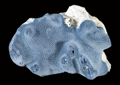 PRESERVED_SPECIMEN; ; ; dry; IZ number 10737; lot count 1; 1957-11-05T00:00:00Z